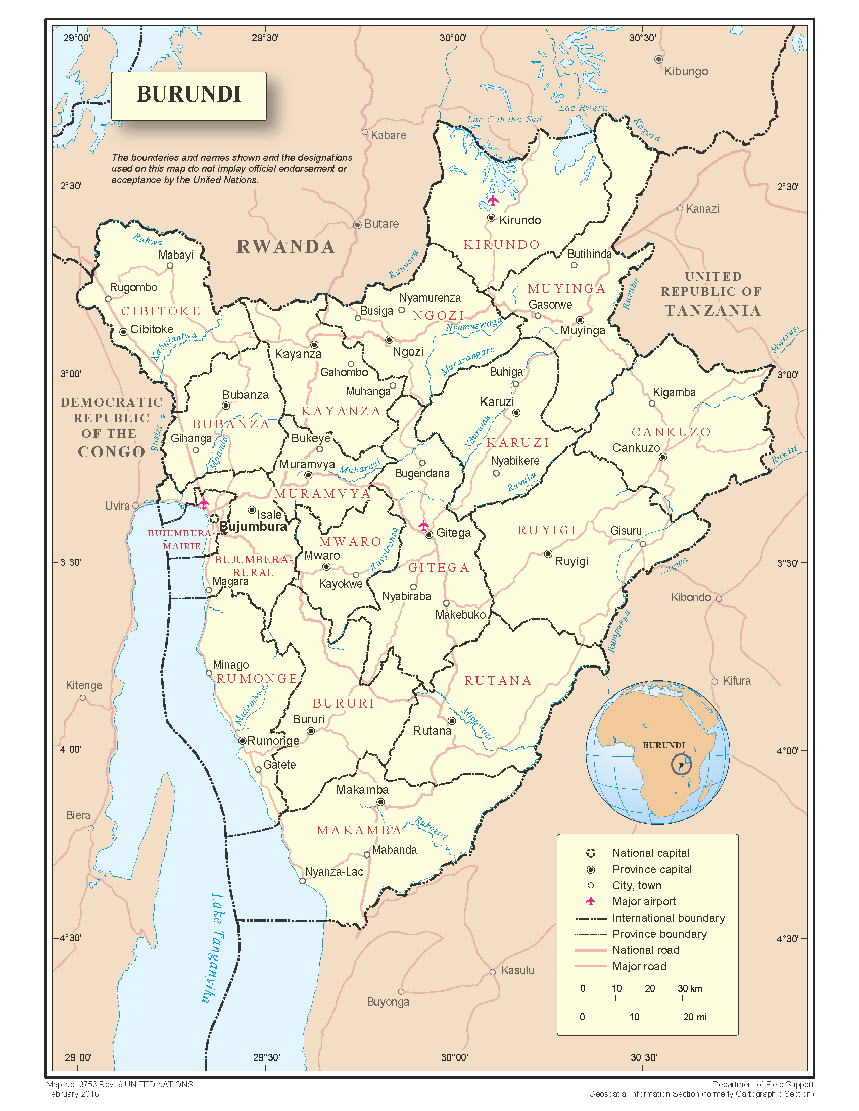 Map of Burundi, United Nations, February 2016